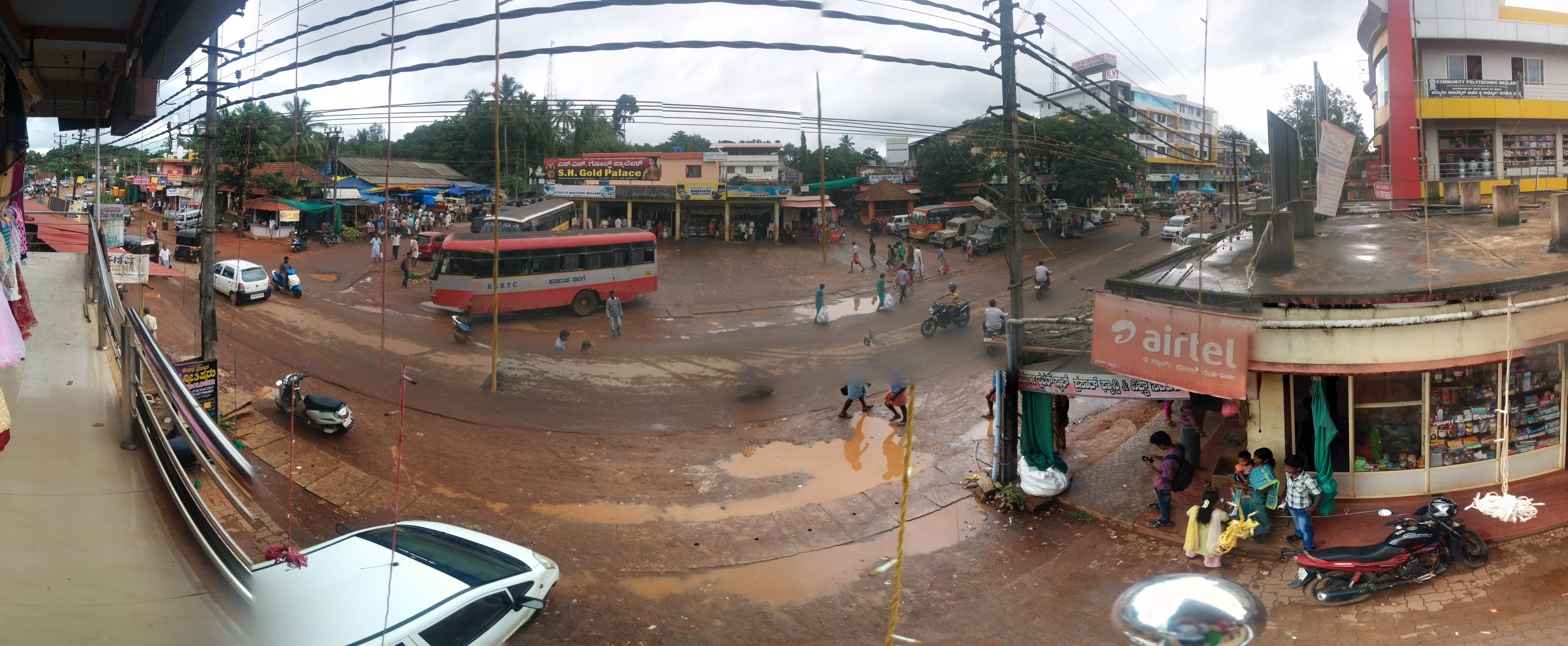 Bellare town bus stand